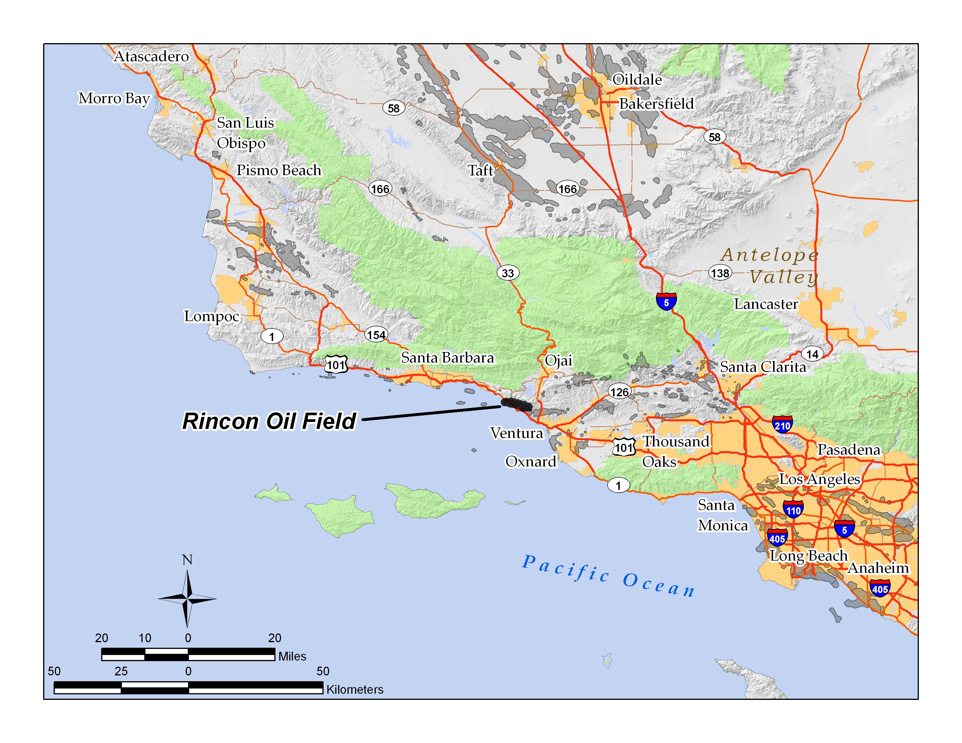 Location of Rincon field, by self in ArcGIS 9.3; all data public domain